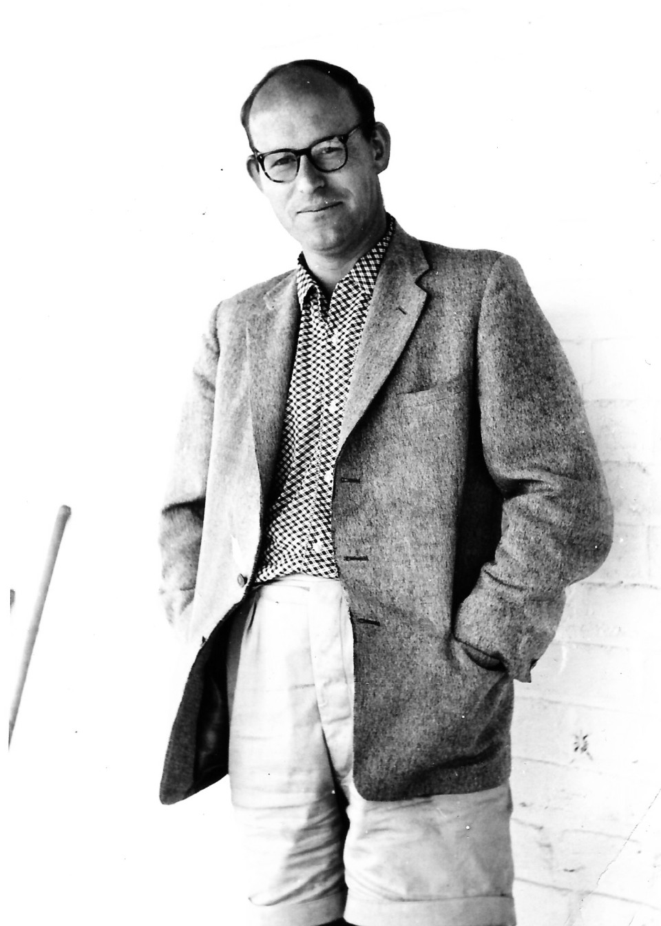 Peter Holmes Canham